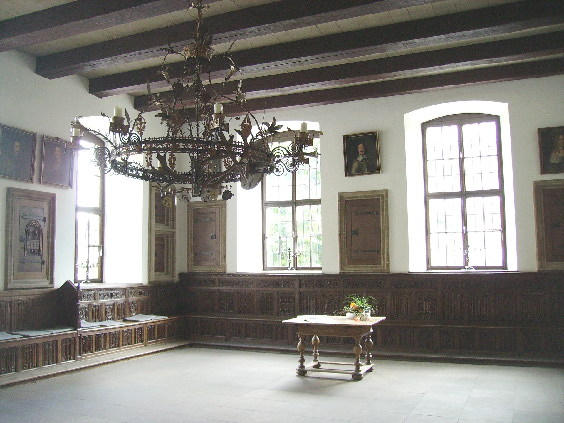 The Friedenssaal in the town hall of Osnabrück